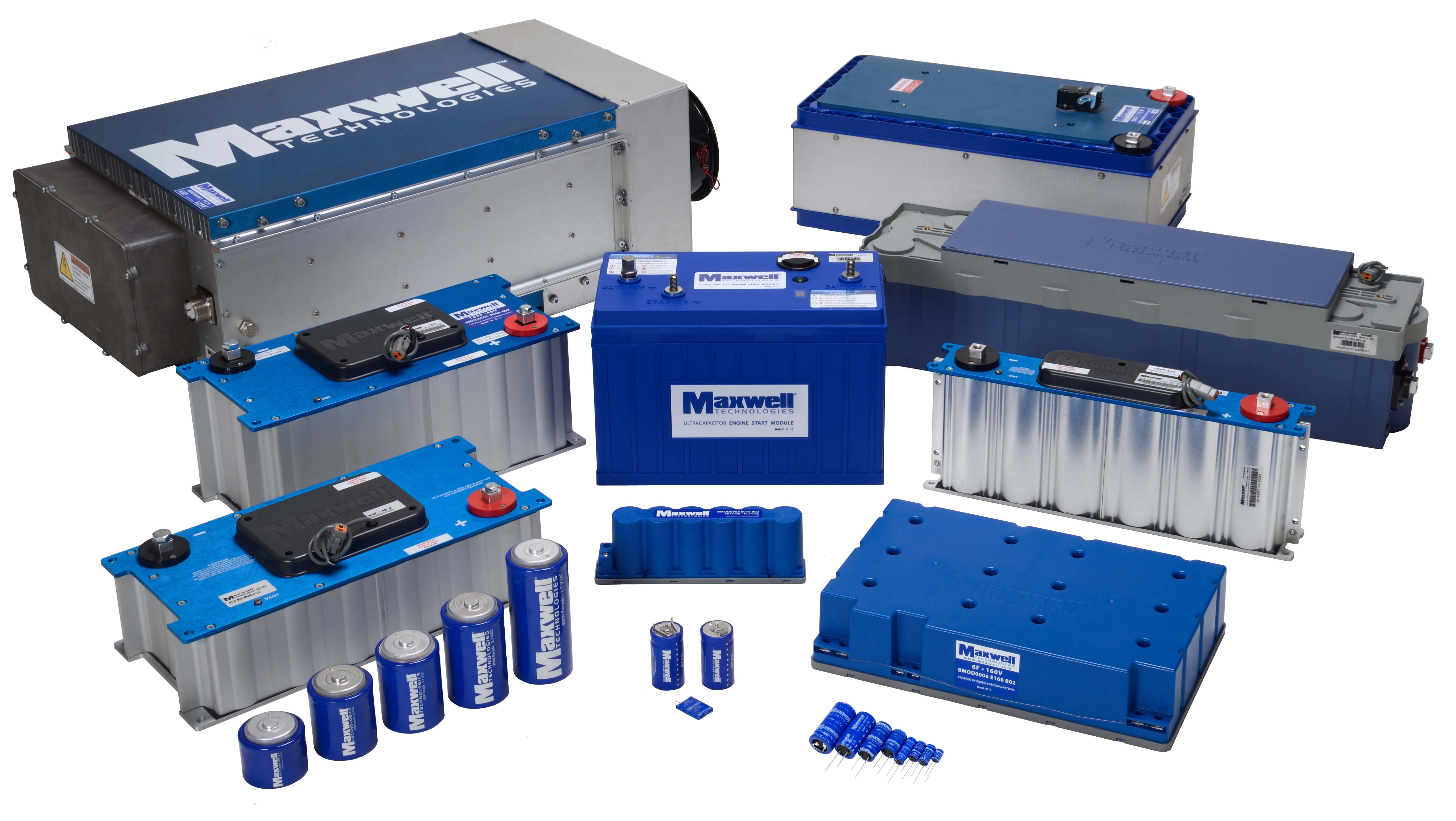 An up-to-date selection of ultracapacitor products from Maxwell that includes cells and modules.